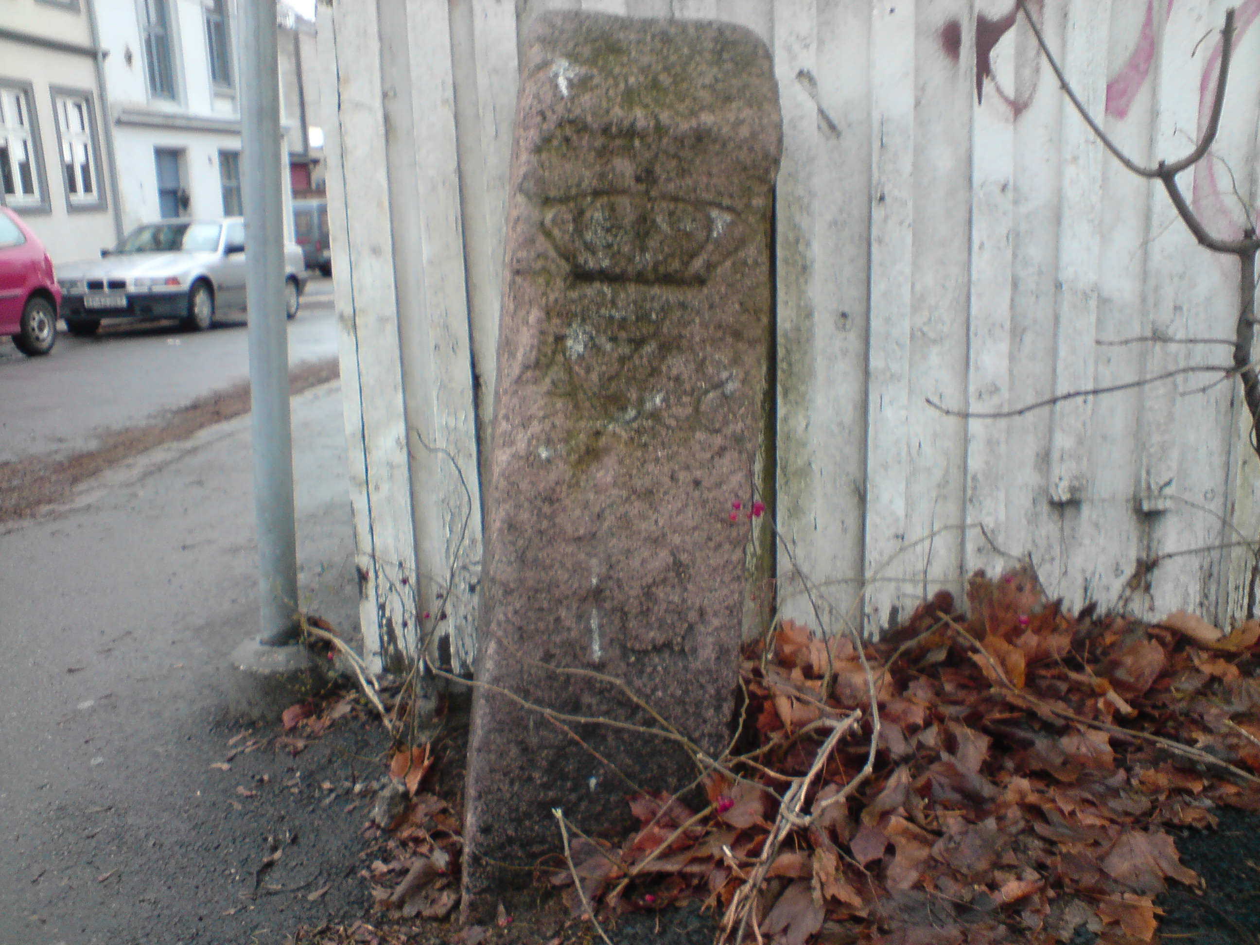 Borderstone nr. 38 between former municipal Aker and Oslo, situated between Vålerenga and Etterstad